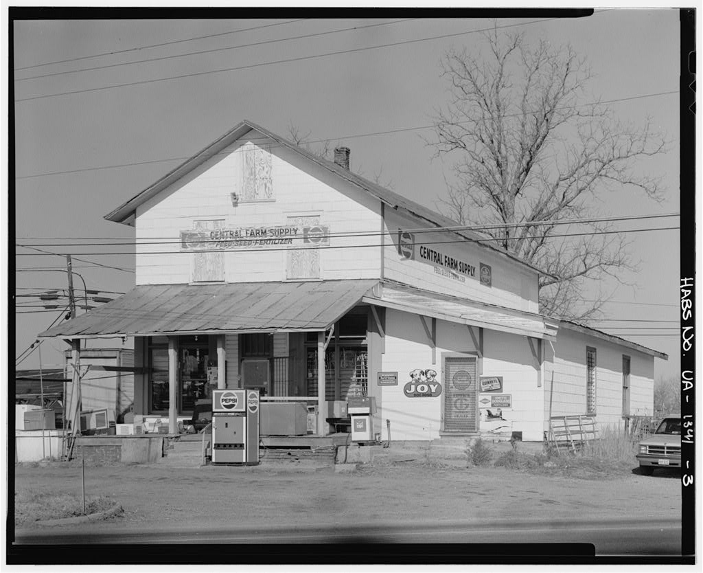 Exterior view of the Horsepasture Store, Horsepasture, Henry County, Virginia, showing the south (front) and east elevations of the store, U. S. Route 58 and State Route 687. Historic American Buildings Survey, Library of Congress, Washington, D. C.